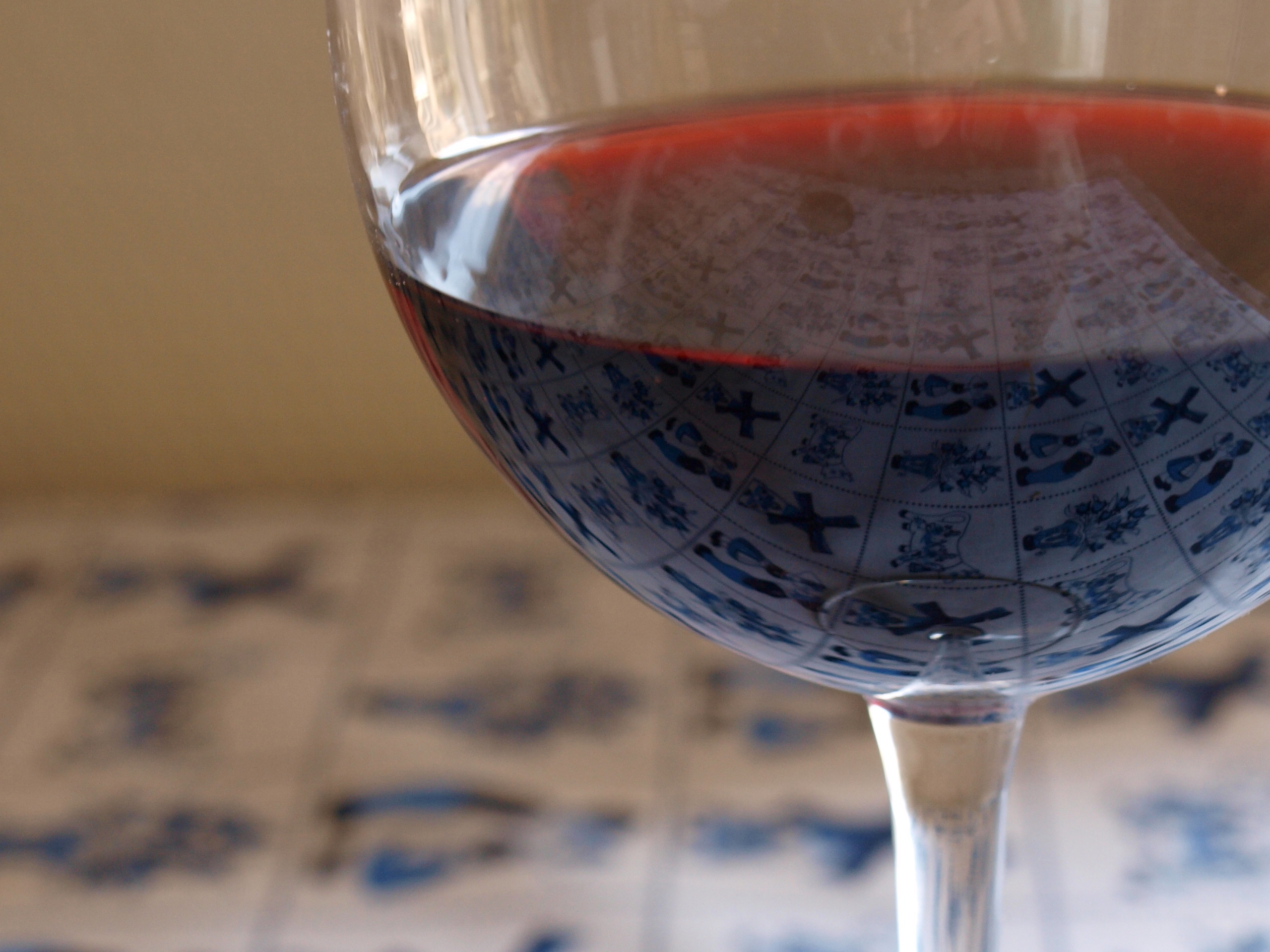 A glass of the Italian wine Barolo made from the Nebbiolo grape in the Piedmont region. This picture shows some of the orange hues that is characteristic of this wine